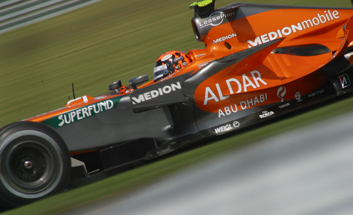 Christijan Albers driving for Spyker F1 at the 2007 United States Grand Prix.